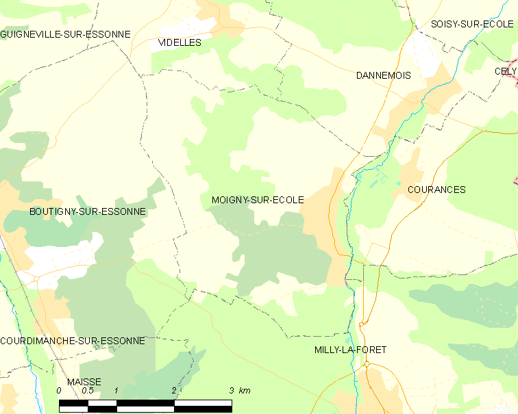 Map of French municipality Moigny-sur-École